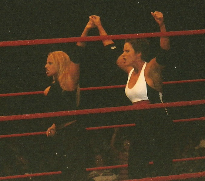 Molly Holly and Trish stratus during a WWE Live event in October 2004.